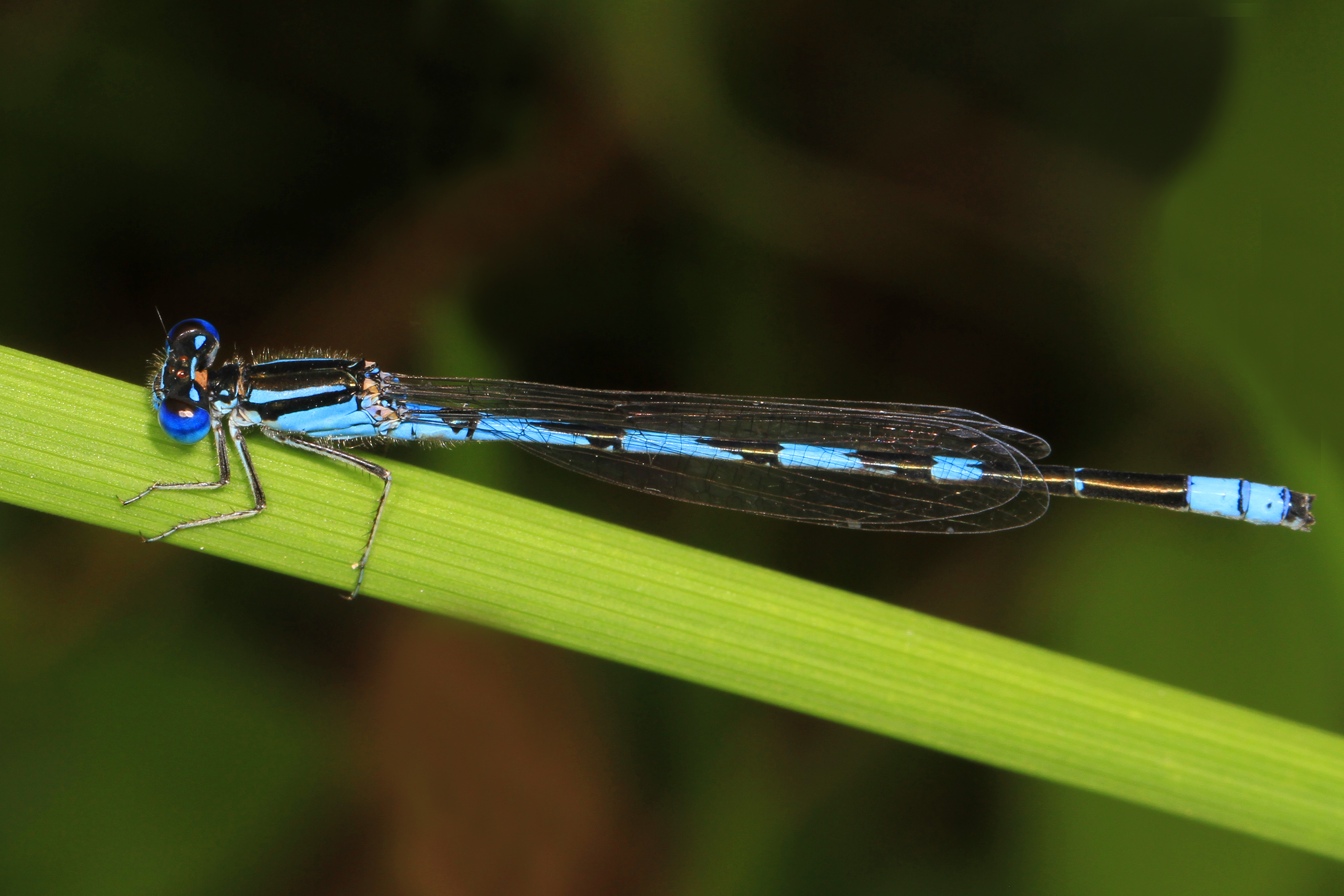 Big Bluet - Enallagma durum, Occoquan Bay National Wildlife Refuge, Woodbridge, Virginia